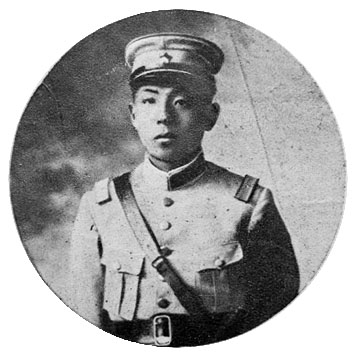 Zhang Xueliang